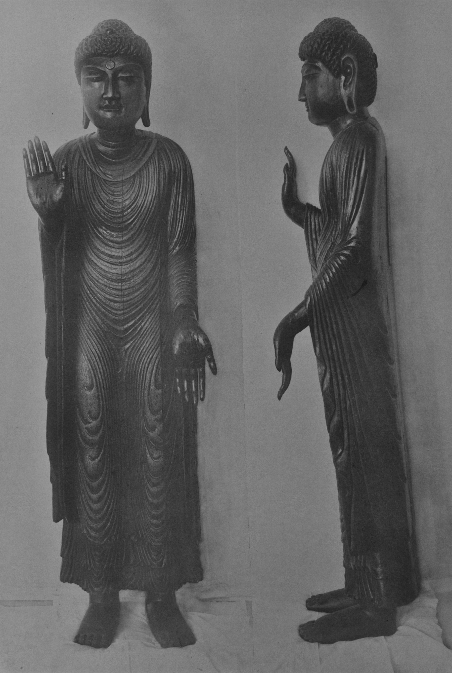 Seiryō-ji, Kyoto, Japan